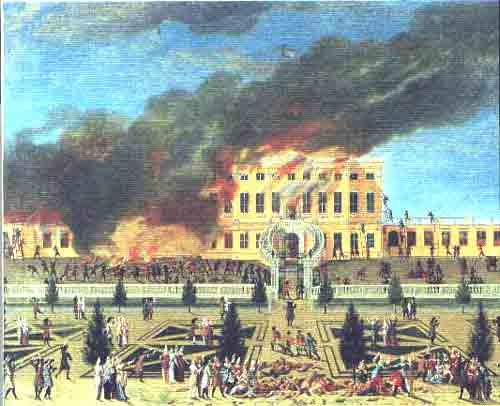 Sophie Amalienborg in Copenhagen, Denmark, during the fire in 1689 when it burned down